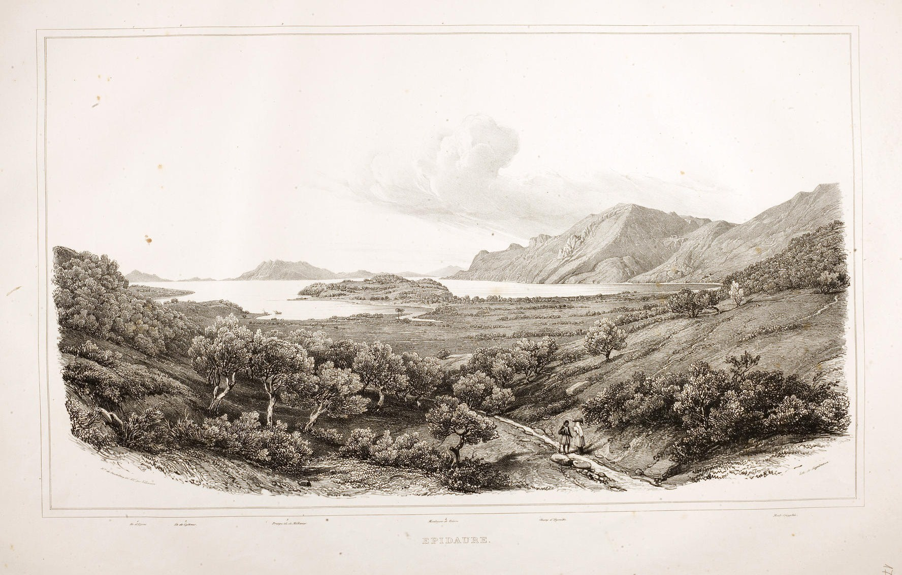 Palea Epidavros ca 1810-1814. Legend, from left to right : ïle d'Egine, ?, presqu'île de Méthana, ?, ?, ?.